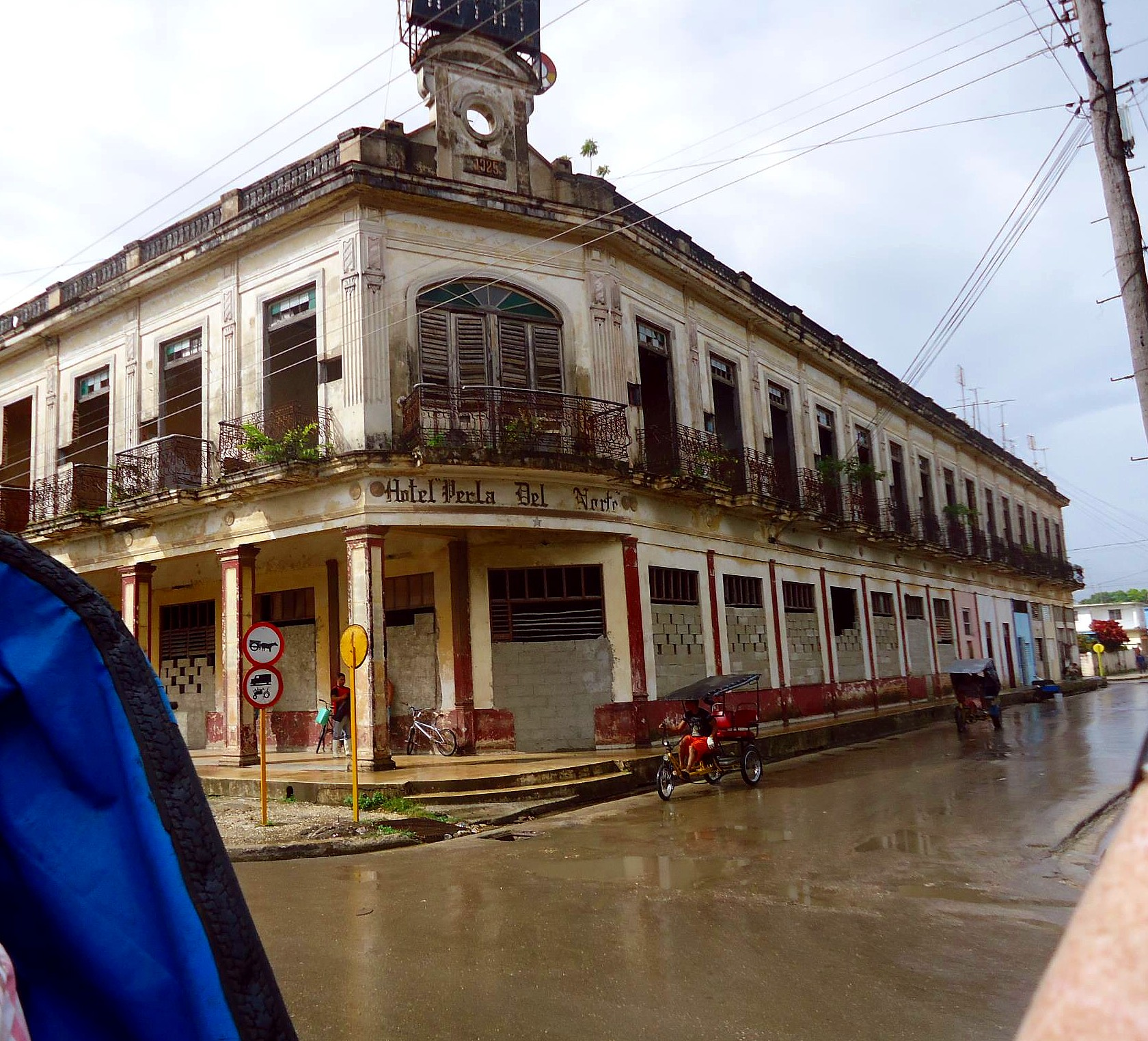 Hotel of the Past